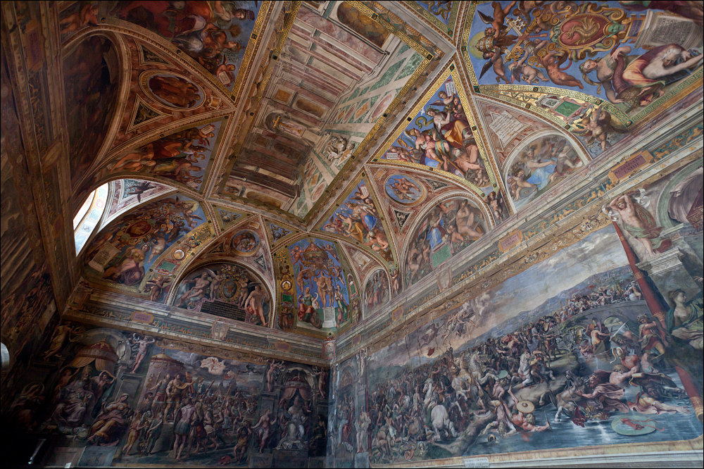 Estancia.